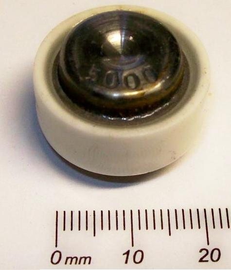 surge protector / Gasableiter